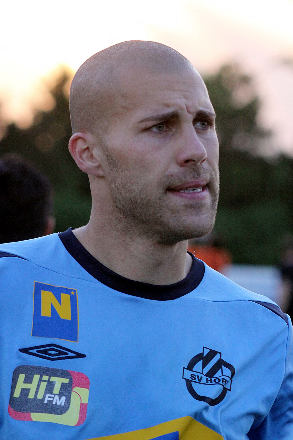 1. SC Sollenau vs. SV Horn at 2012-05-25 in Sollenau 3:1 (3:0). – The photo shows Mario Konrad (SV Horn). Object location47° 54′ 04.4″ N, 16° 14′ 35.78″ E